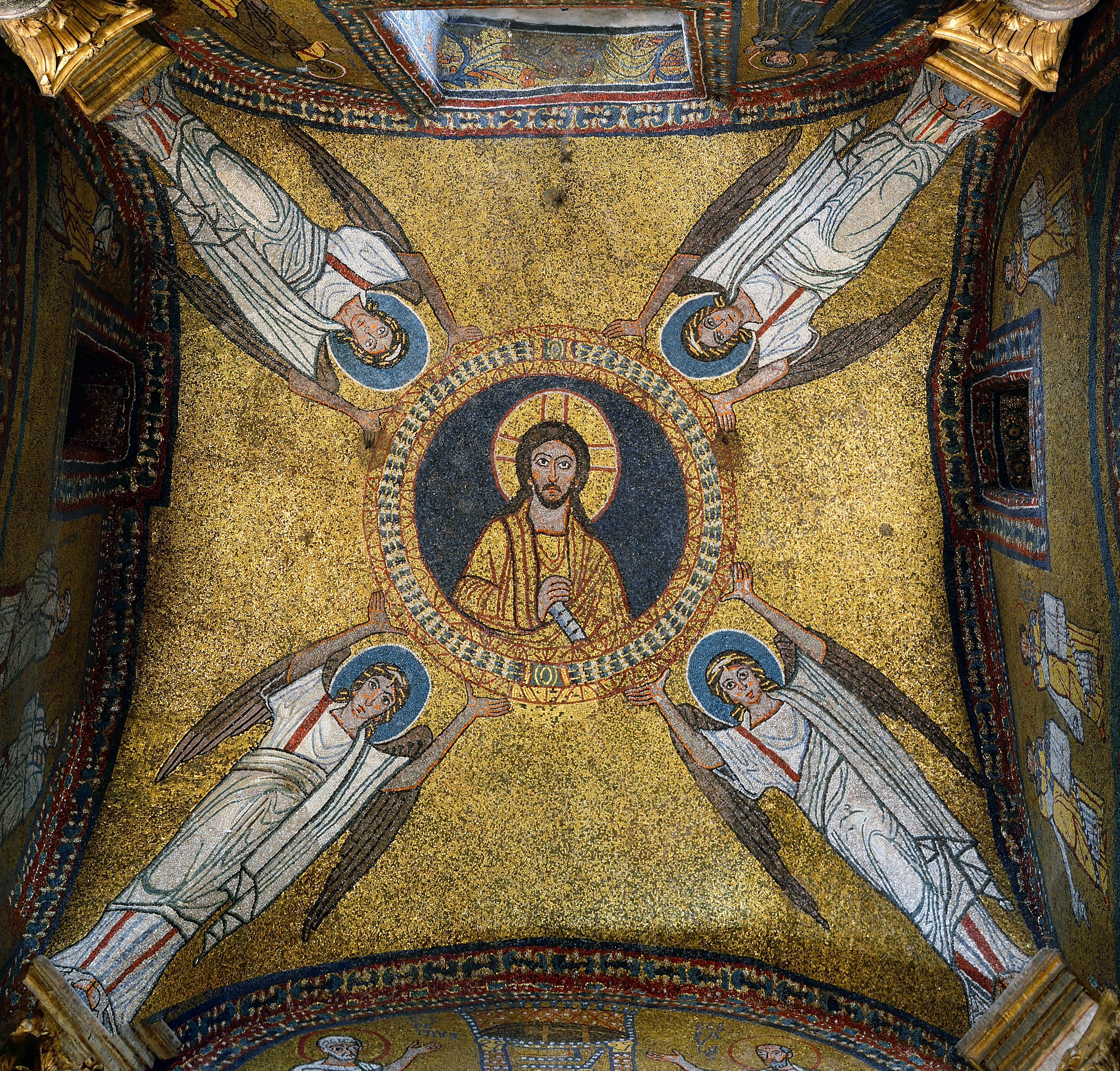 Mosaic of the vault of the chapel of San Zeno (IX century)